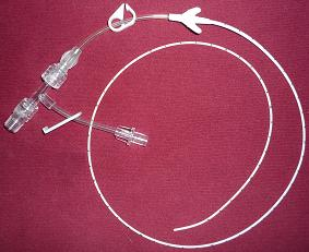 A typical peripherally inserted central catheter. The maker's logo has been intentionally painted out. This is a single lumen model, but they are also available in two and three lumen models.